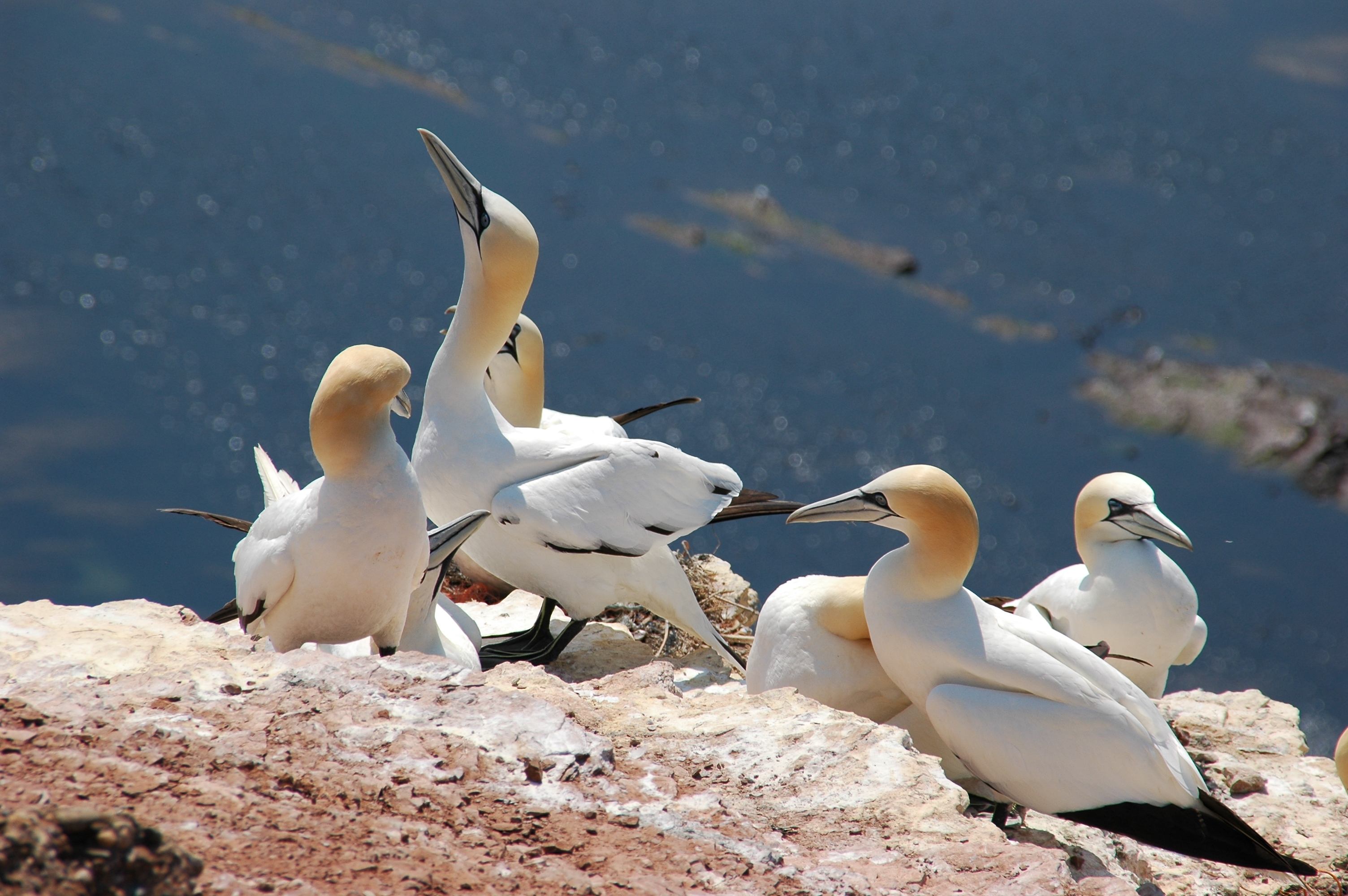 Northern Gannets, Heligoland